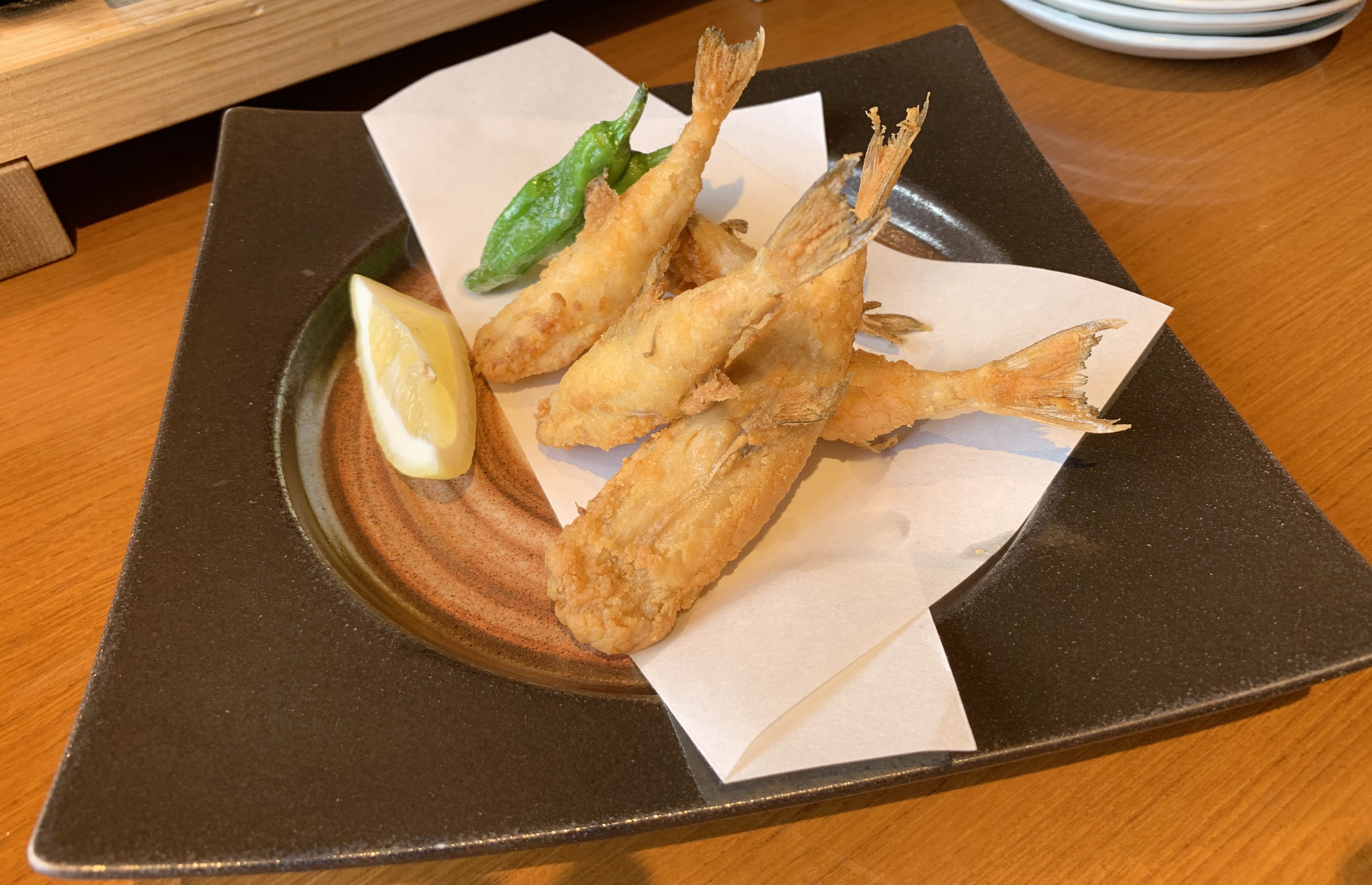 Deep-fried blowfish